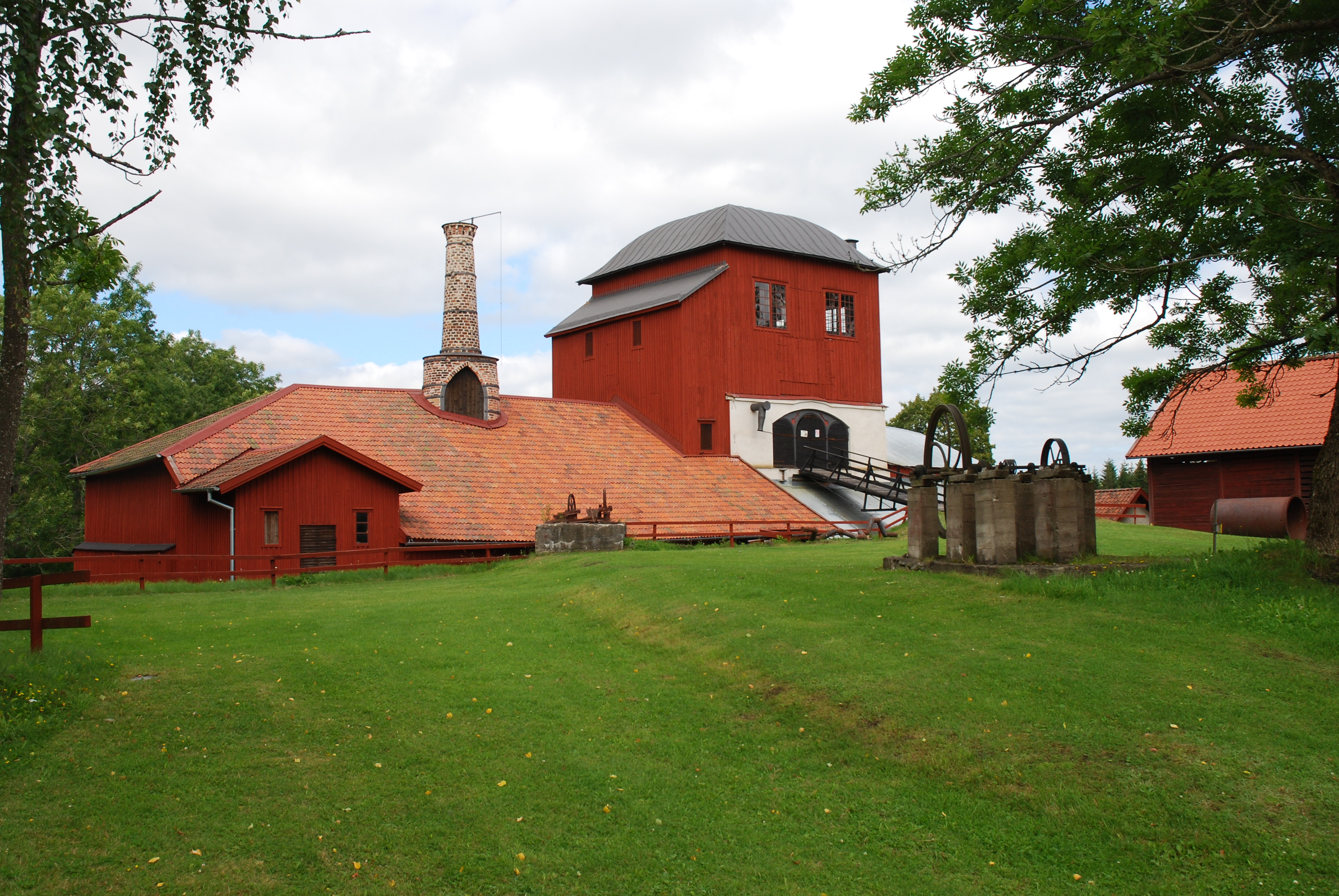 Pershyttan Iron Works, Sweden